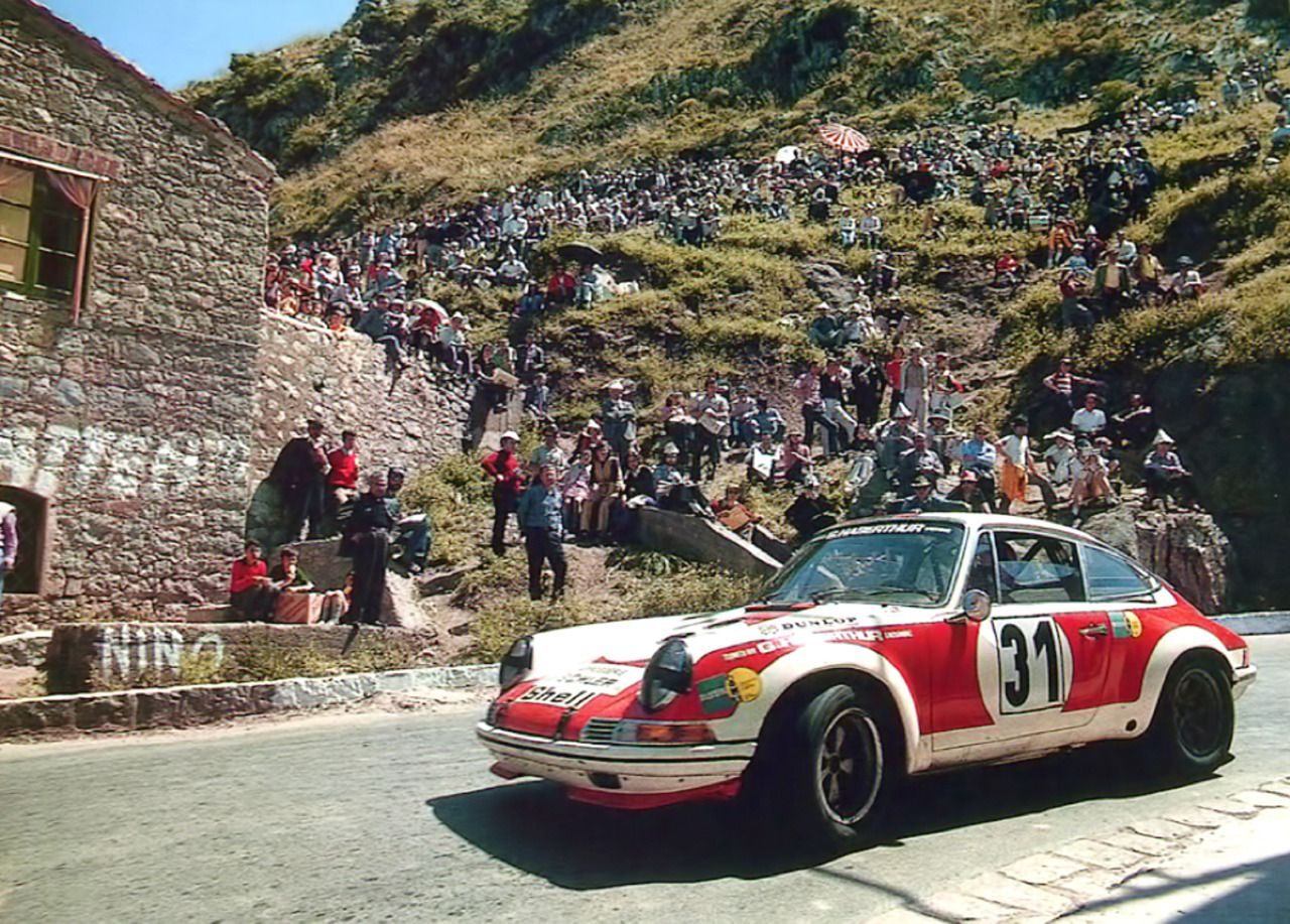 Gerard Darton Merlin and Raymond Pochet in 911S at Targa Flirio (Collesano) on 21 May 1972. They ended in 54th plaze.[1]